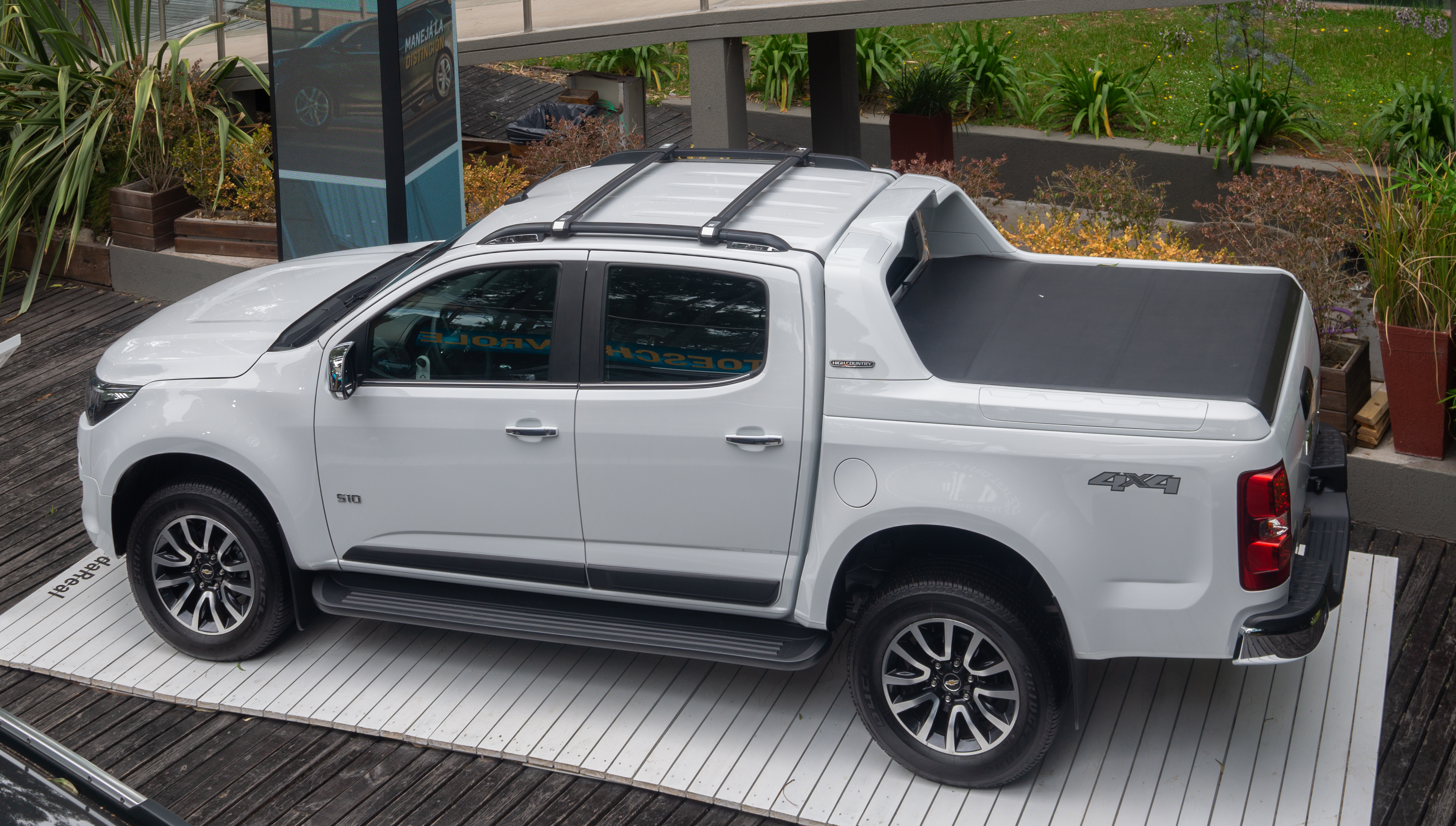 Chevrolet S10 4x4 showed in Cariló, Argentina